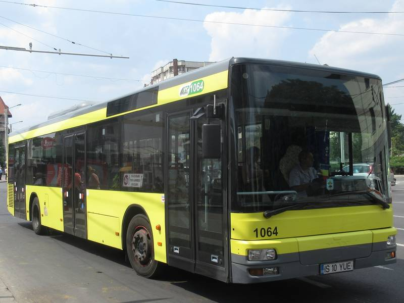 MAN NL 313 (1064) on route 46 in Iași (Romania)